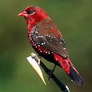 Red Munia Estrilda amandava. Photographed in Bangalore, India.